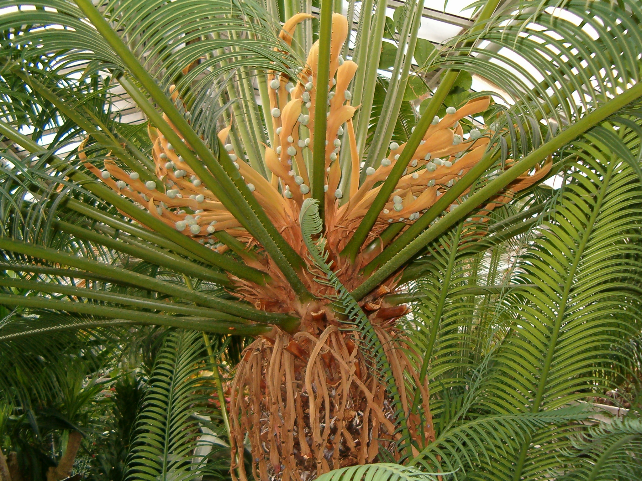 Cycas rumphii female plant Location: Botanical Gardens Berlin